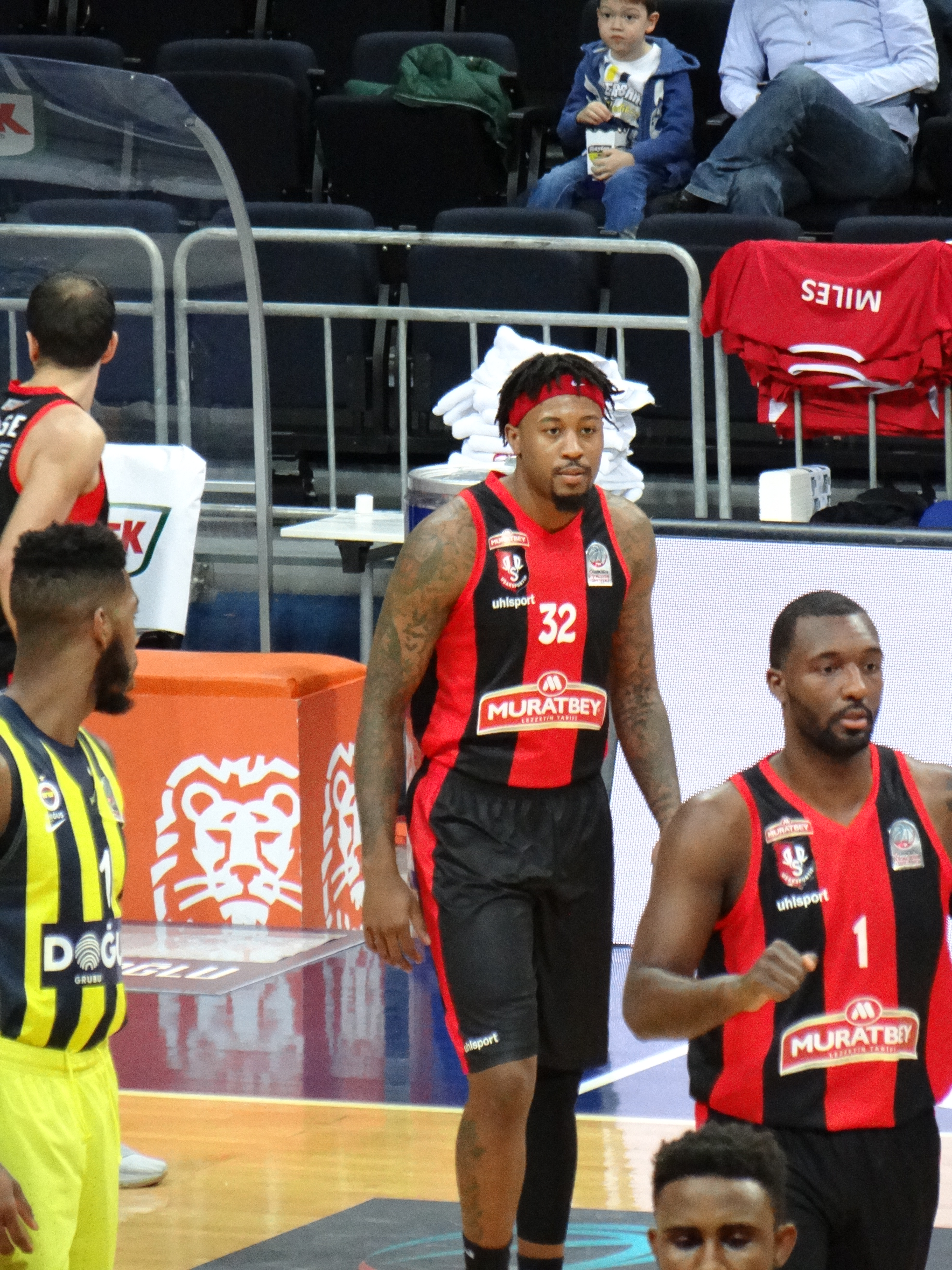 Isaiah Miles 32 Uşak Sportif 20171224